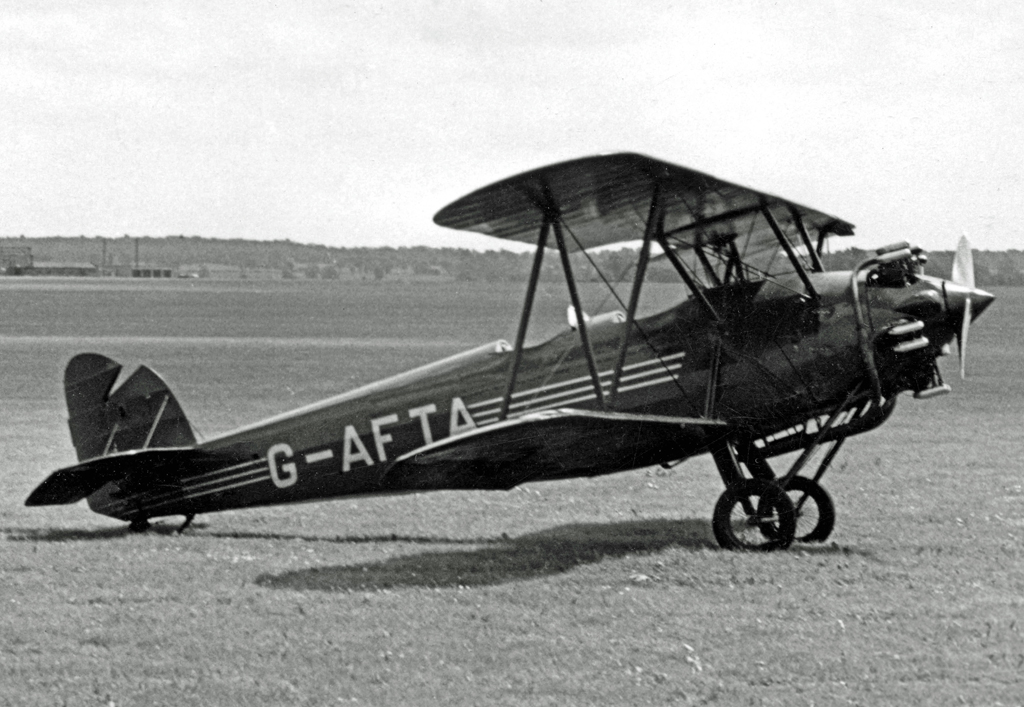 Hawker Tomtit G-AFTA when owned by Hawker Aircraft and painted in their dark blue colours.